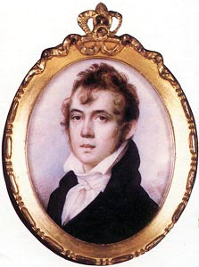 Portrait of the miniaturist Anson Dickinson (1779-1852) by Edward Greene Malbone.